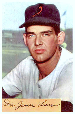 1954 Bowman baseball card of Don Larsen of the Baltimore Orioles #101. PD-not-renewed.